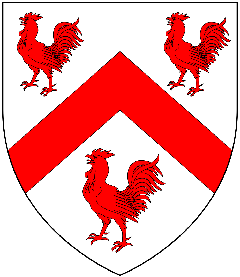 Arms of Cockworthy of Cockworthy (now "Cogworthy") in the parish of Yarnscombe, Devon: Argent, a chevron between three cocks gules (Pole, Sir William (d.1635), Collections Towards a Description of the County of Devon, Sir John-William de la Pole (ed.), London, 1791, p.475).